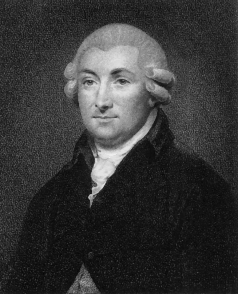 Henry Revell Reynolds (SIL14-R002-12a).jpg